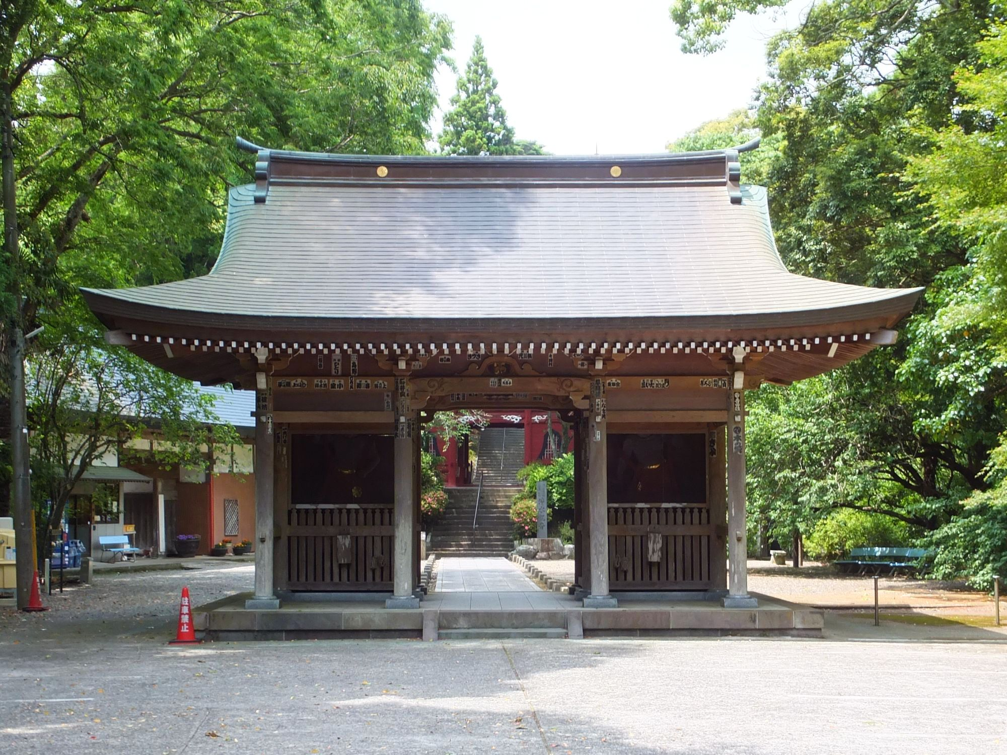 Niōmon-mon gate of Kiyomizu-dera temple in Isumi, Chiba prefecture